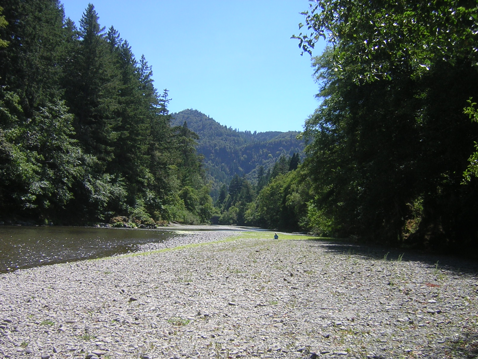 Looking upstream Mattole River at the Arthur Way County Memorial Park.